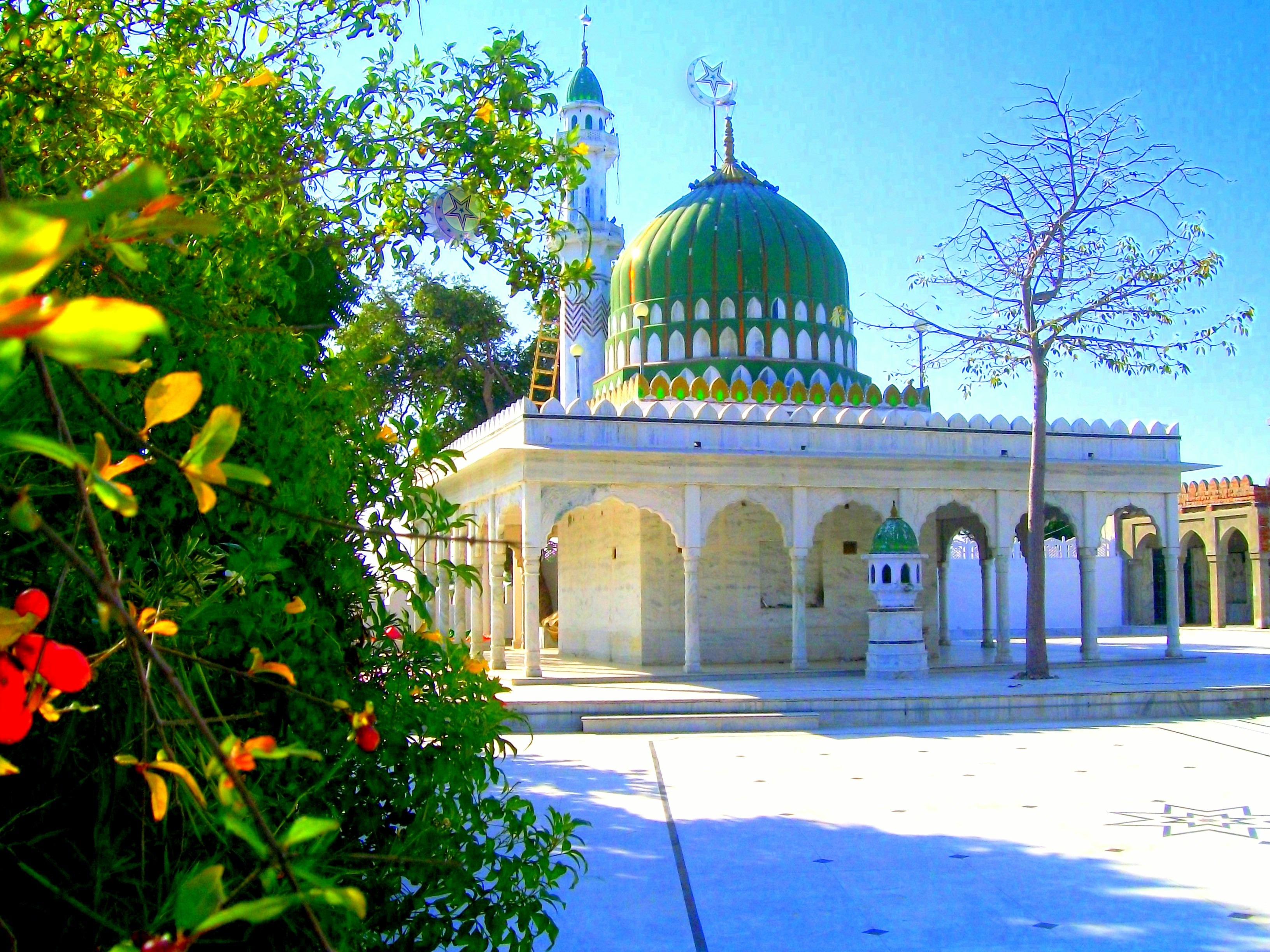 Daragh Of Sujat Ali Rehamatulla Alei